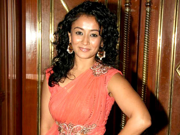 Gayatri Patel